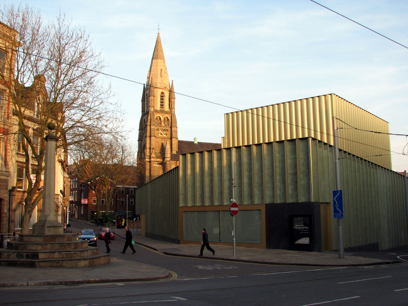 Weekday Cross: Nottingham Contemporary